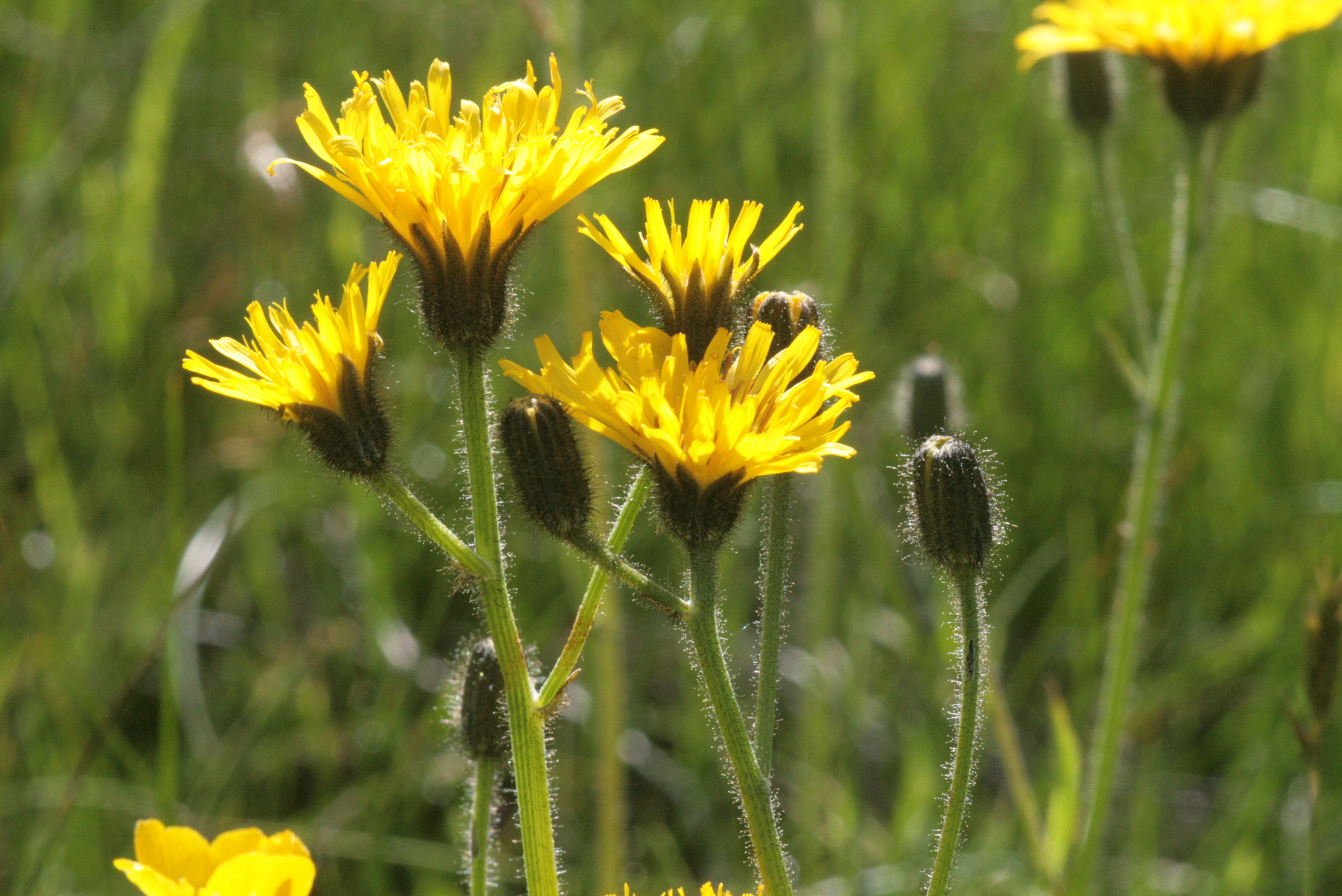 Willemetia stipitata